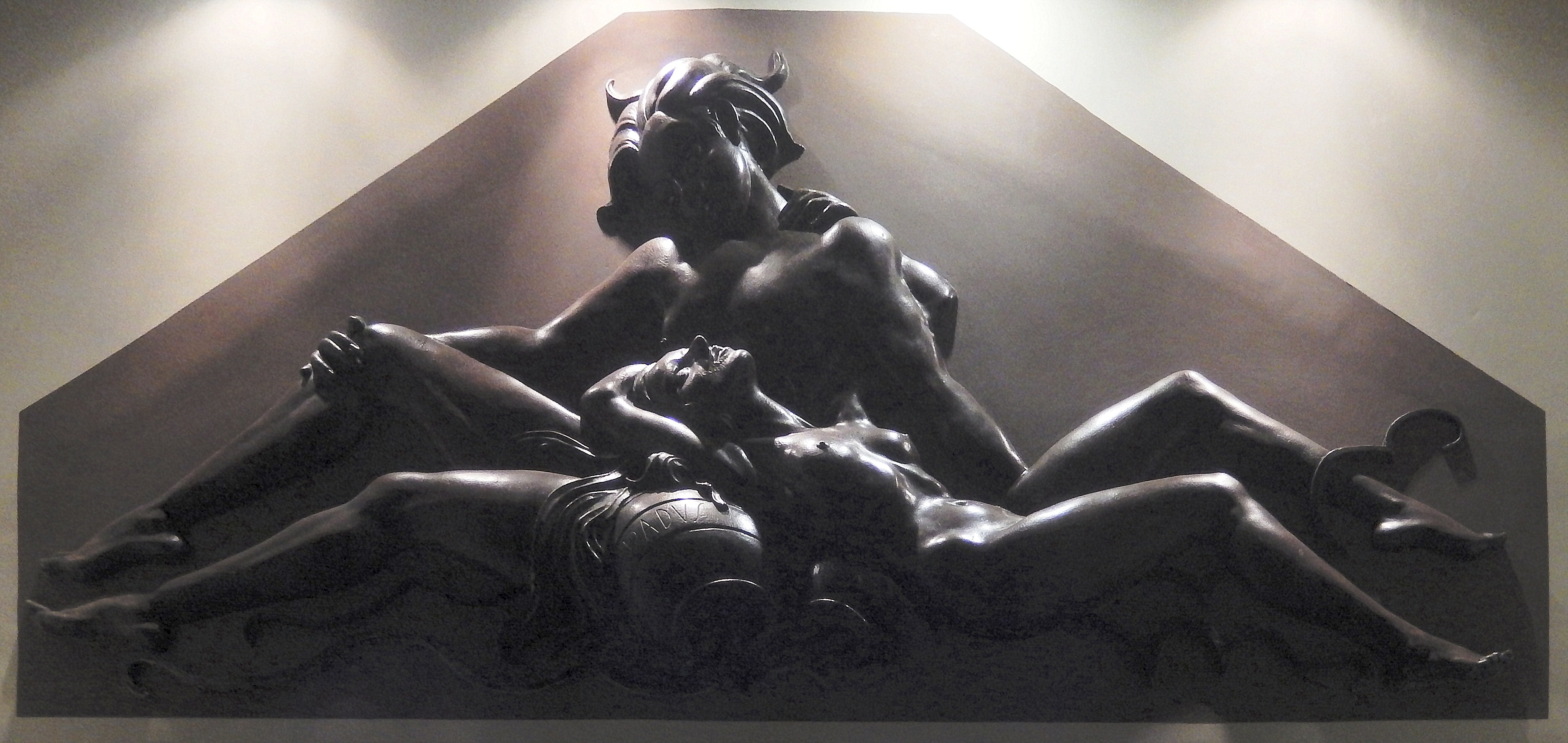 Bronze relief sculpture 'Il Po e La Dora' by the Italian architect Otto Maraini (1904-1970). Originally in the Bar Zucca, Via Roma, Torino. Now in the Hotel Dogana Vecchia, Torino